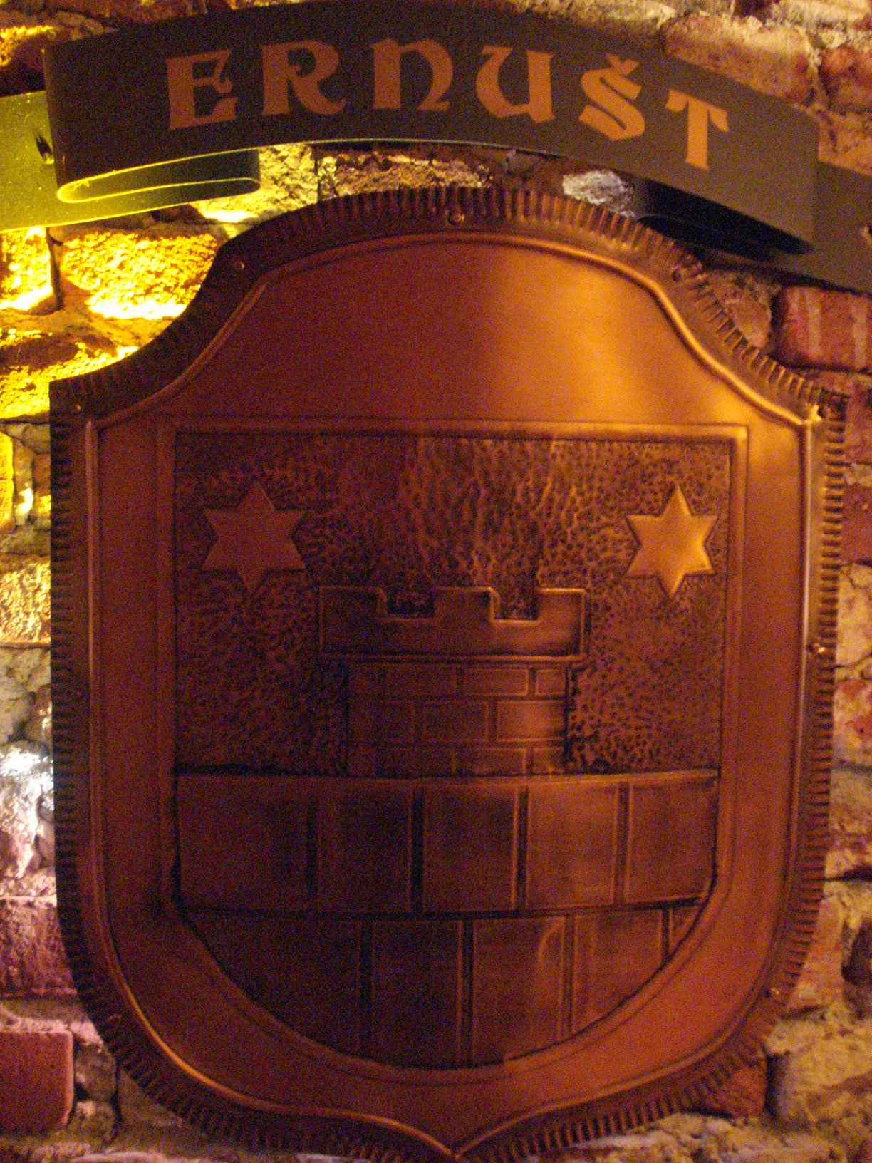 Ernušt family coat of arms in Čakovec, Croatia